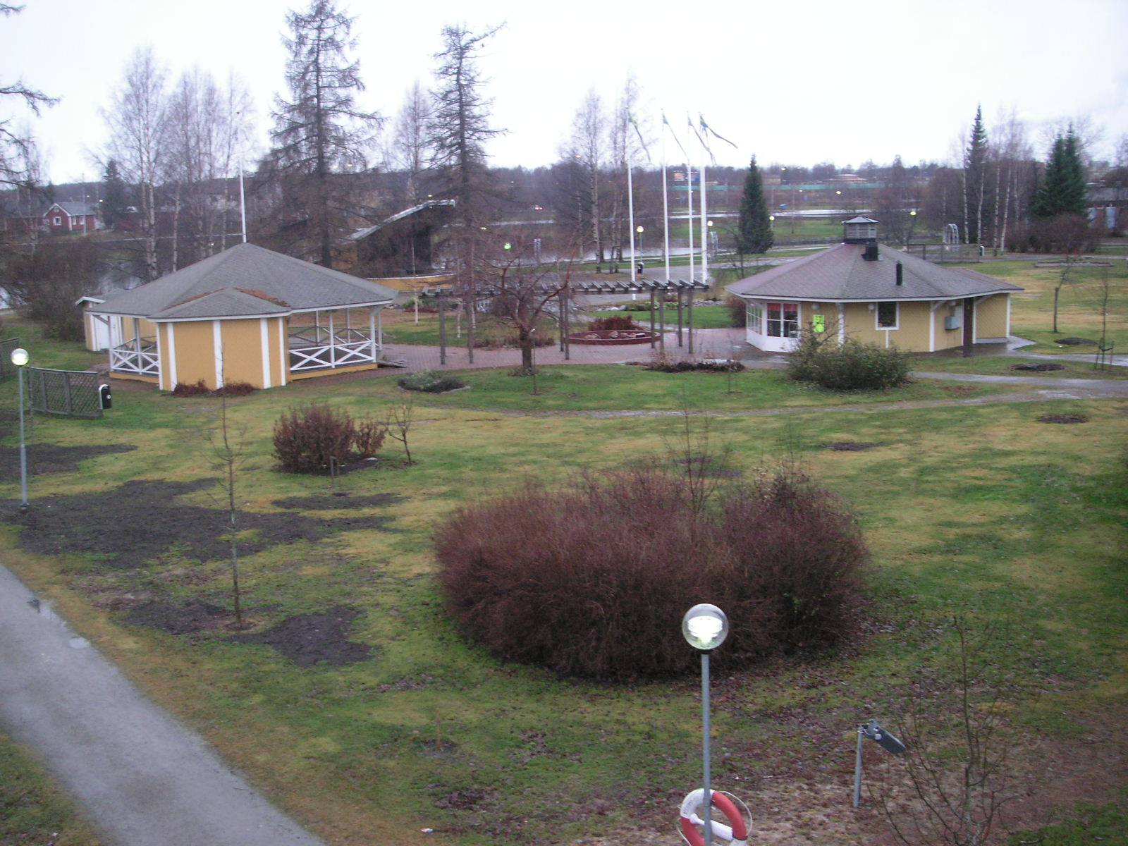 View over park "Badhusparken" in Piteå, Sweden.